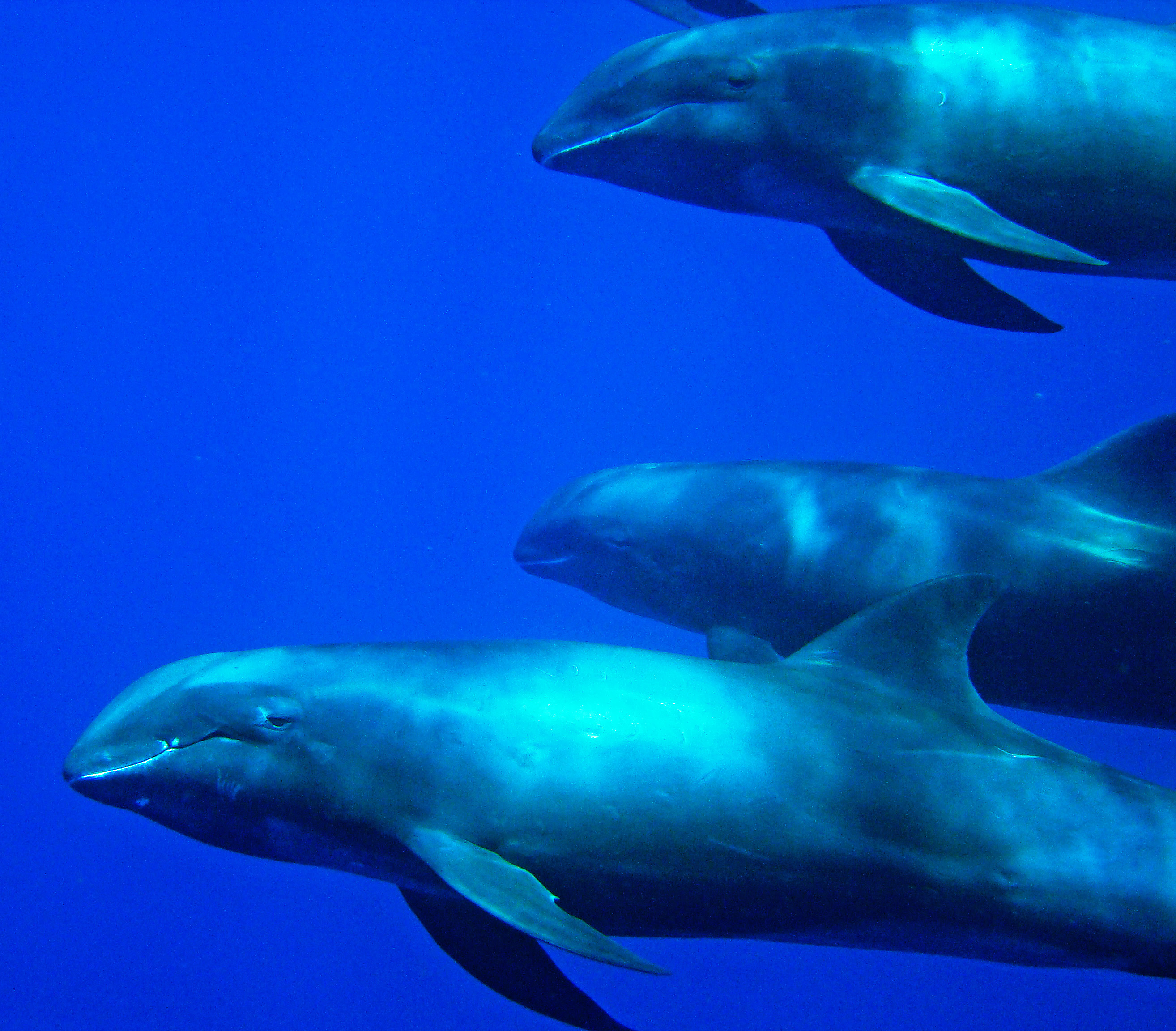 Pacific Remote Islands Marine National Monument. Photo credit: Kydd Pollock